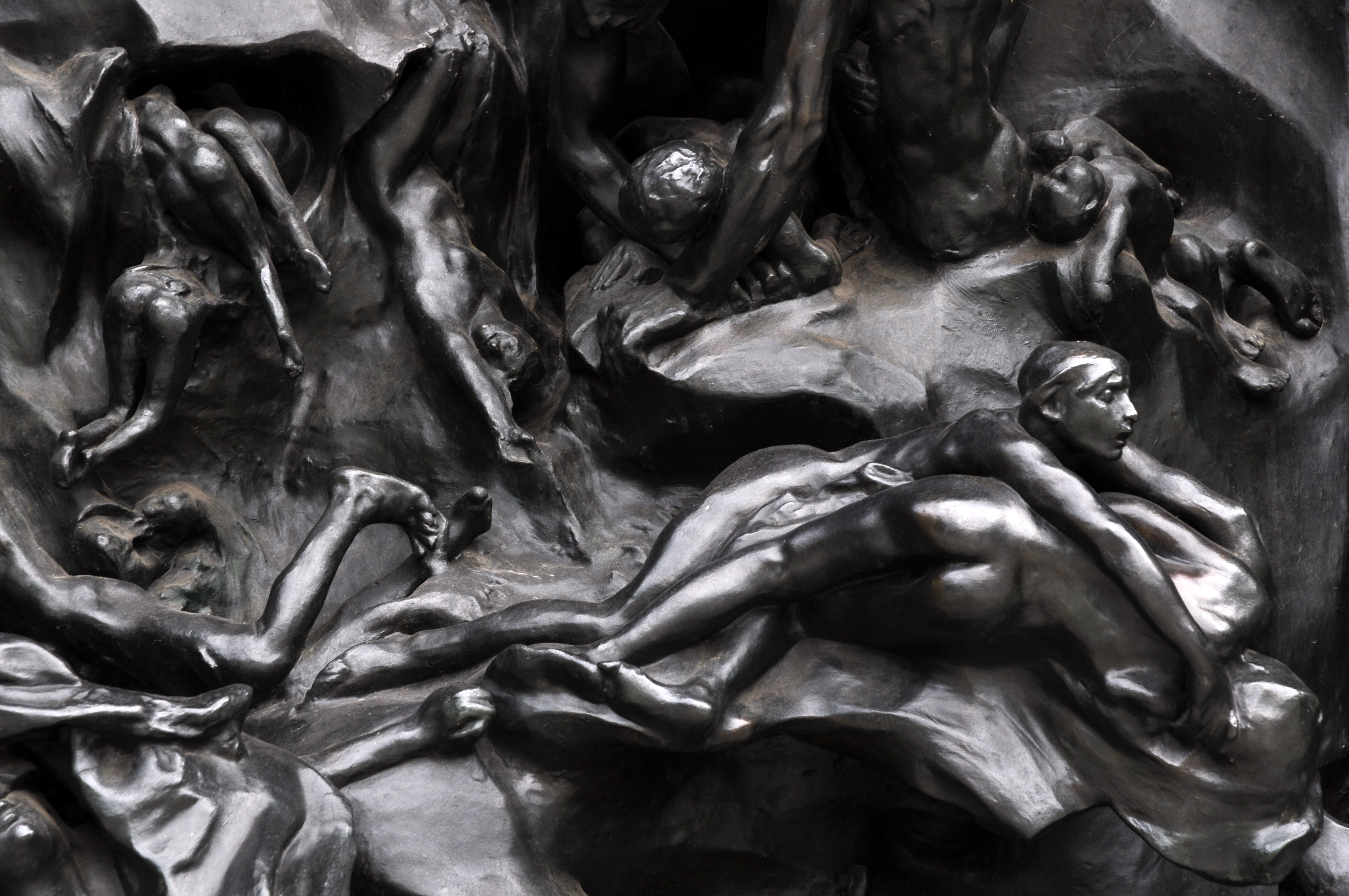 La Porte de l’Enfer (The Gates of Hell) by Auguste Rodin situated at the Kunsthaus in Zürich (Switzerland)